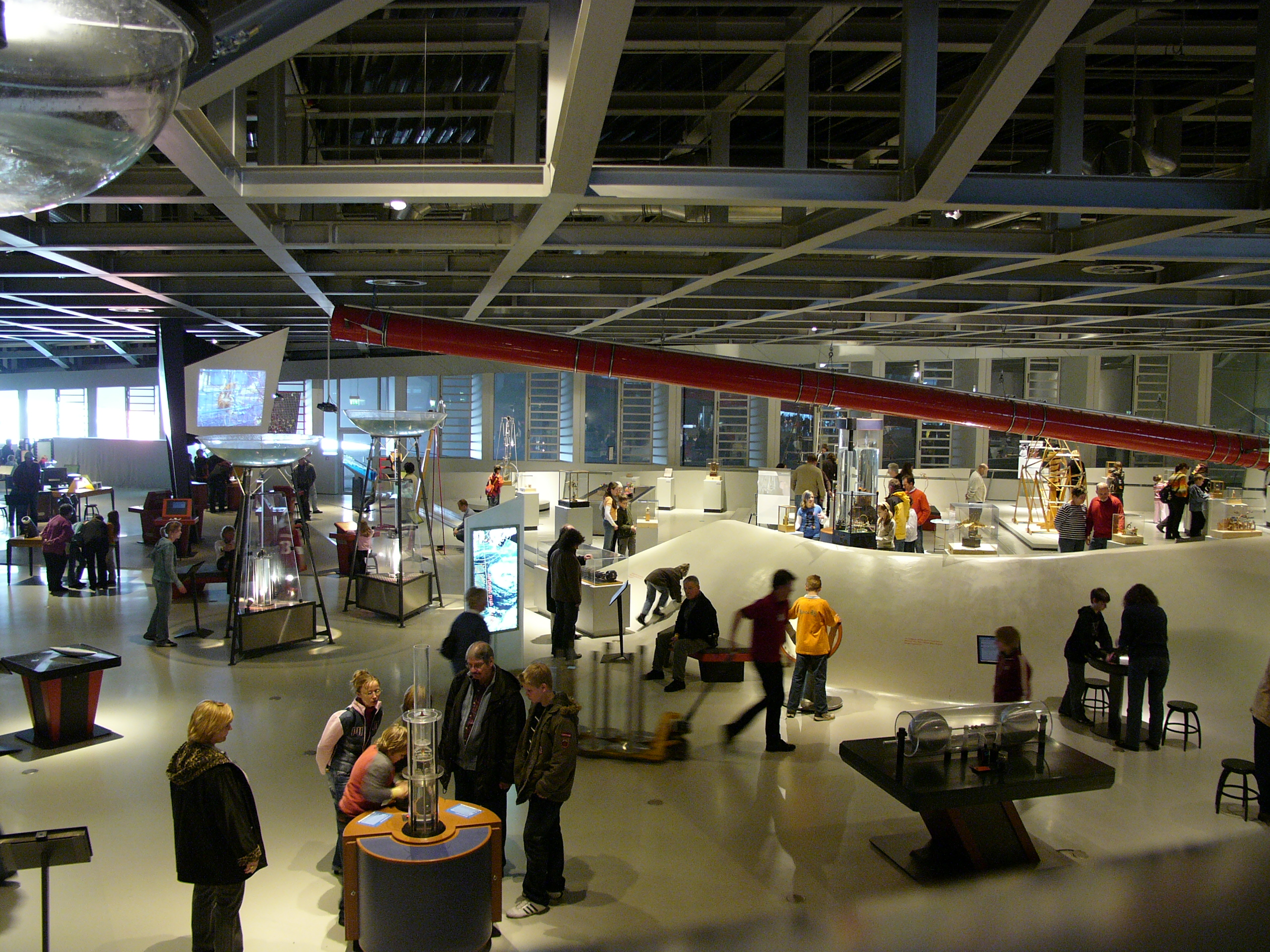 Phaeno, Wolfsburg, northern Germany